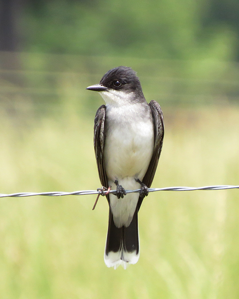 Tyrannus tyrannus 27 may 14 Gunter Road, SC